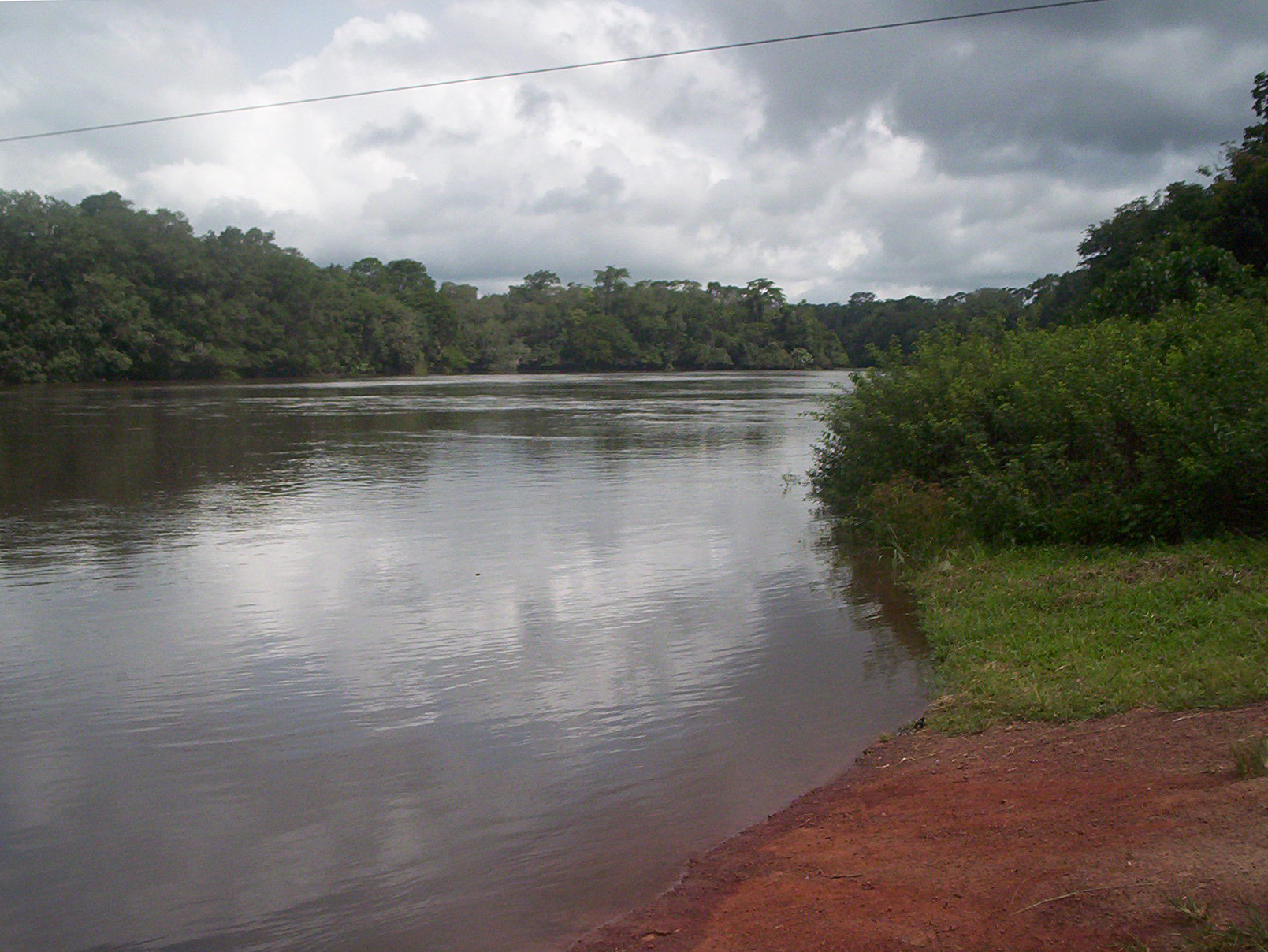 The Dja River in Cameroon's East Province, south of Lomié and north of Ngoila.